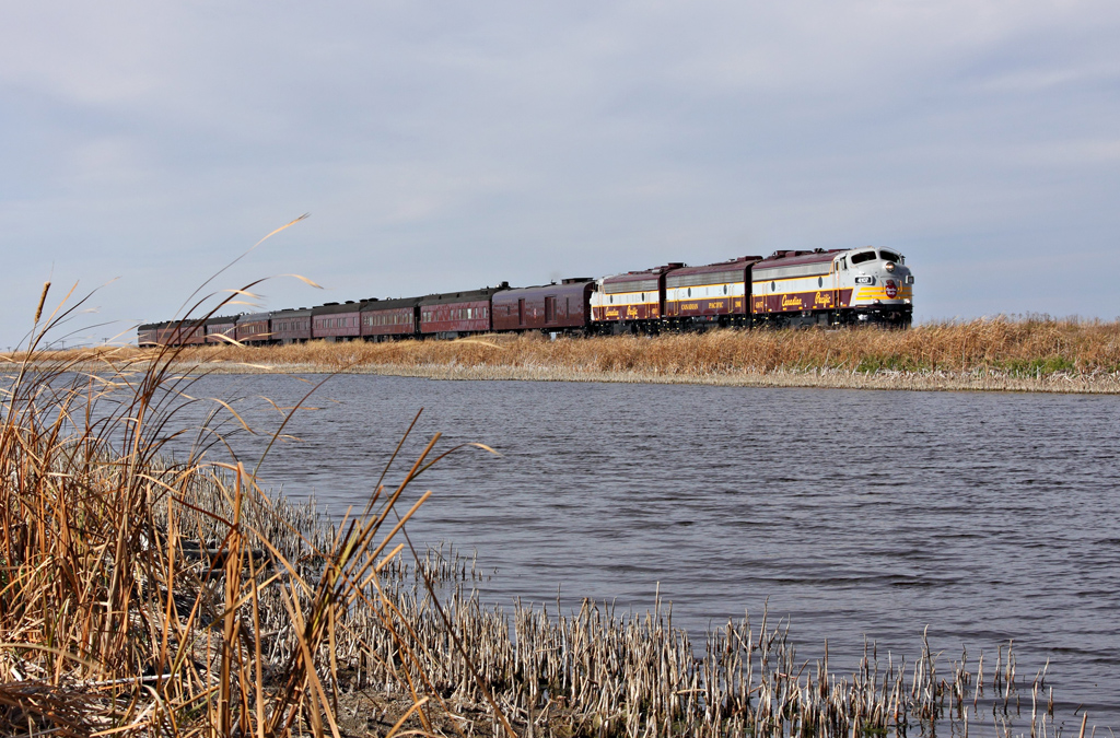 The Royal Canadian Pacific near Bergen, North Dakota in 2012.